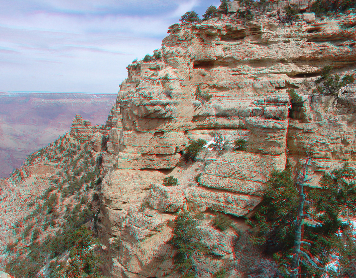 Bedded and jointed cliffs of the Kaibab Limestone at the Grand Canyon.